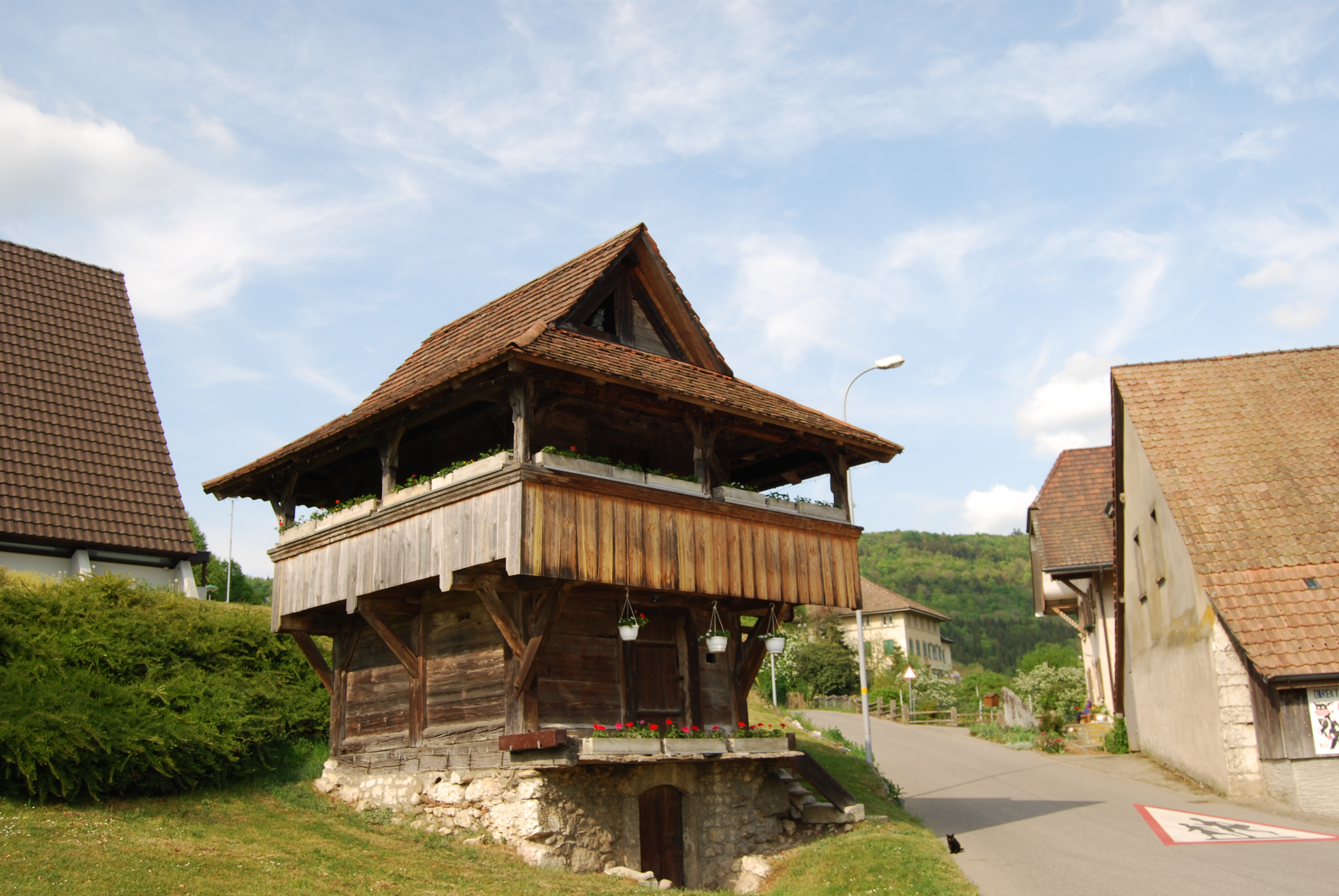 Store house at Boningen, canton of Solothurn, Switzerland